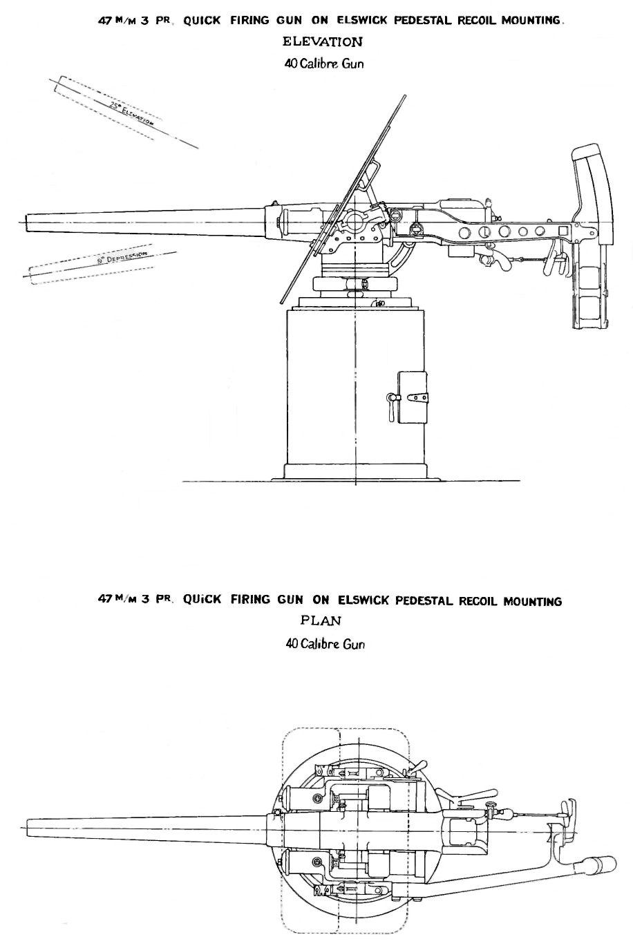 Left elevation and Plan of QF 47 mm (3-pounder) gun on Elswick pedestal recoil mounting.